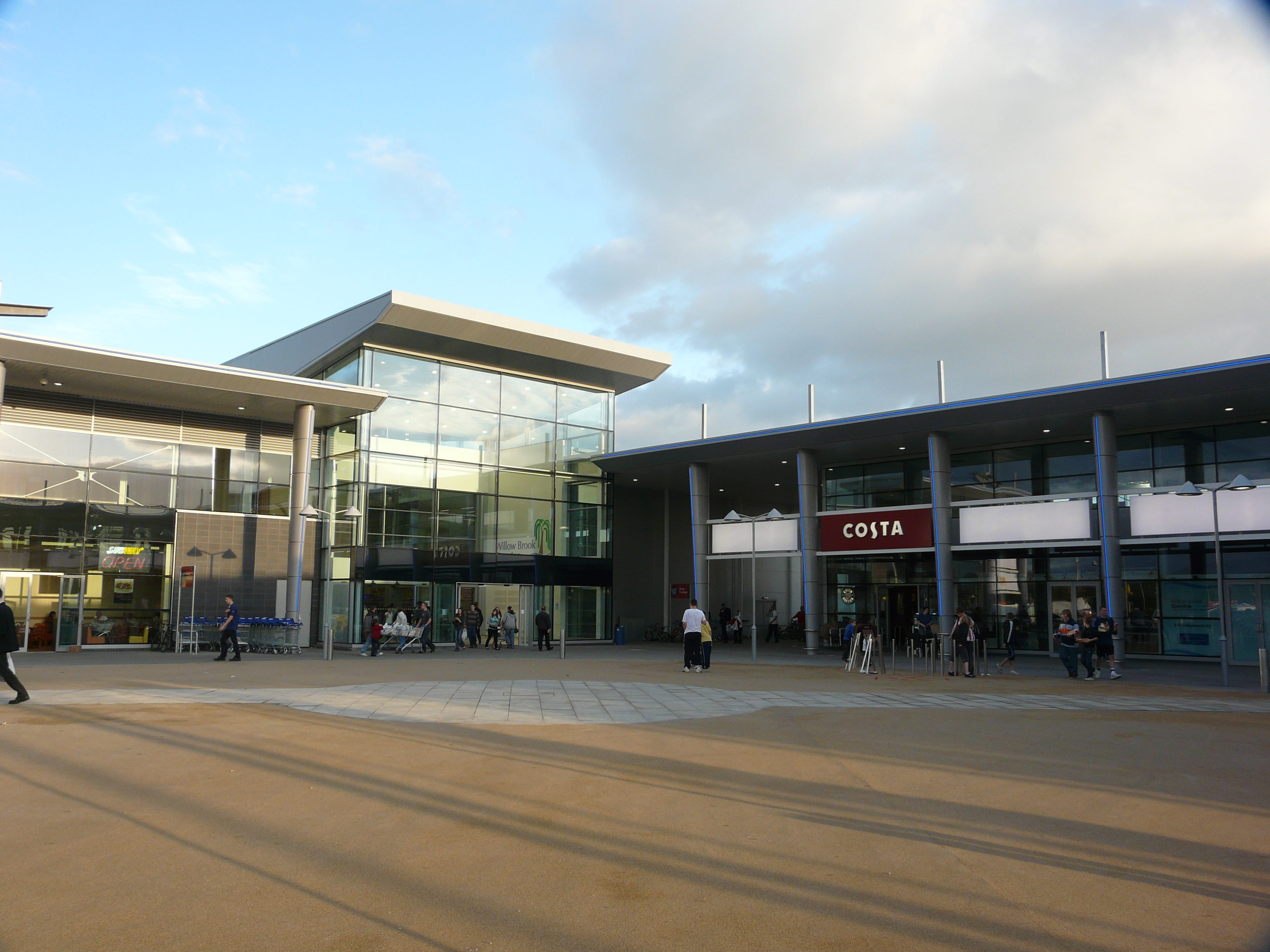 Willow Brook Centre Bradley Stoke on opening day.